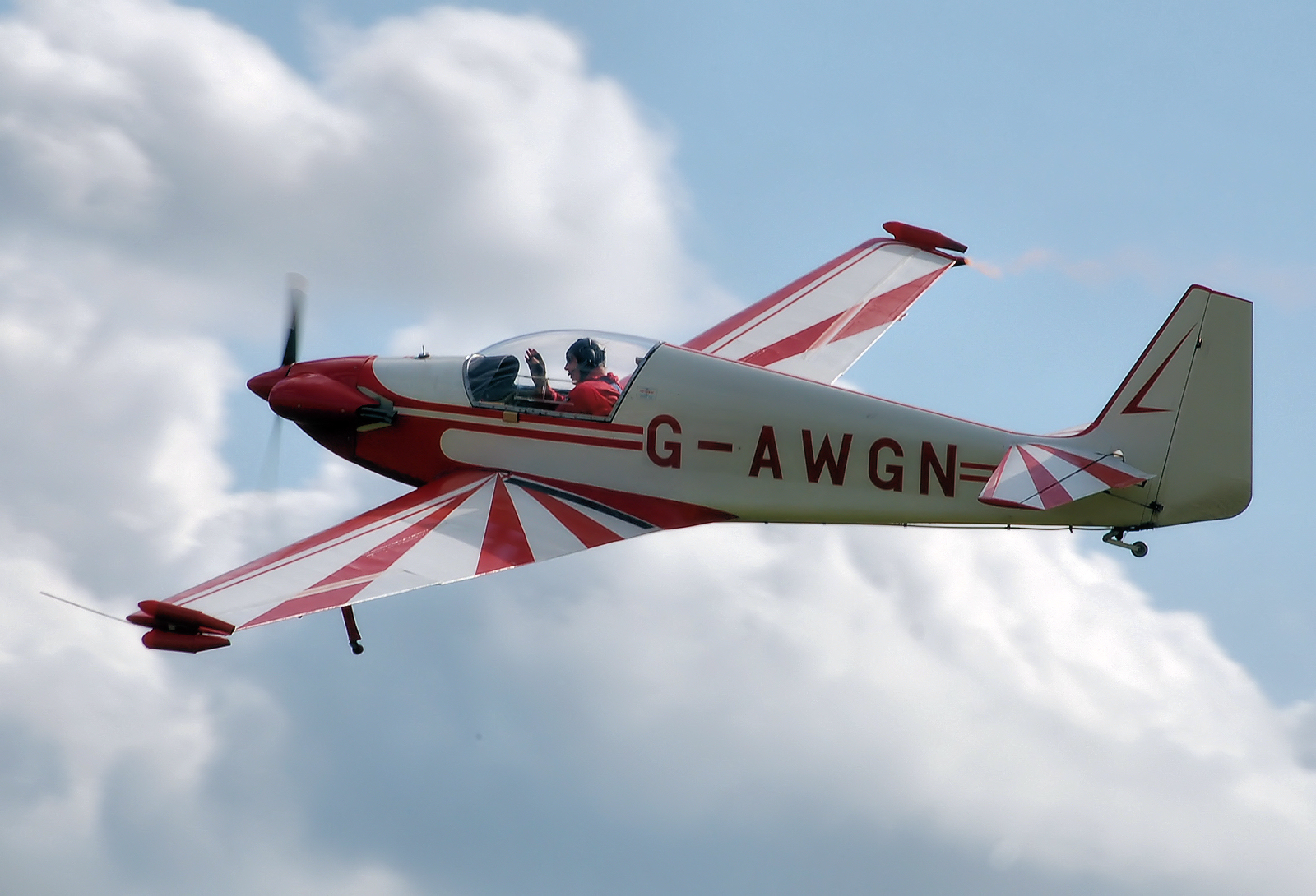 Fournier RF4D motor glider (G-AWGN), built 1968, at Kemble Battle of Britain Weekend 2009, Cotswold Airport, Gloucestershire, England. "RF" means the designer Rene Fournier and "D" means Germany where the D models were built (please imagine an Acute accent on the final "e" of Rene).